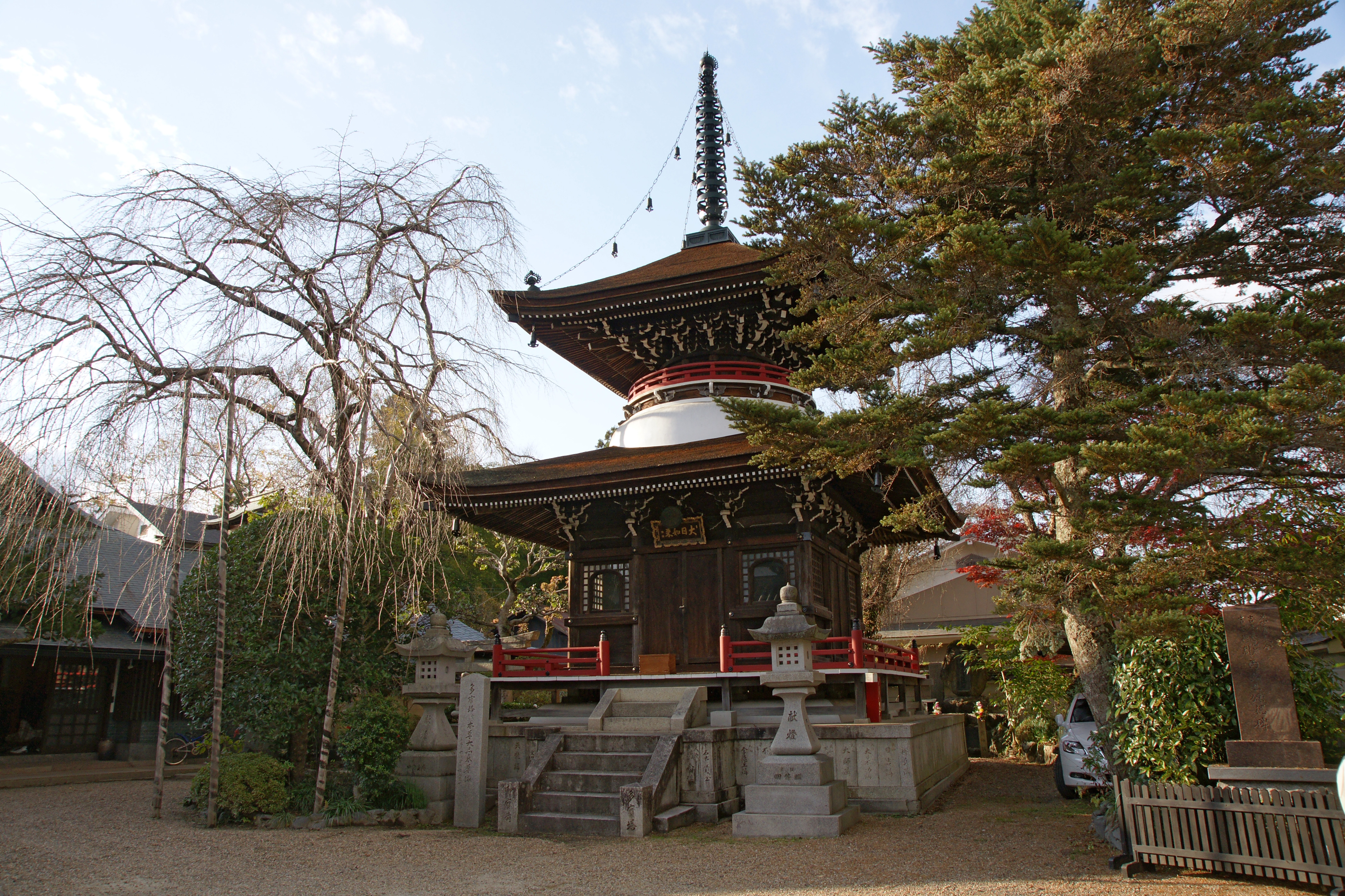 Tonanin in Yoshino, Nara prefecture, Japan